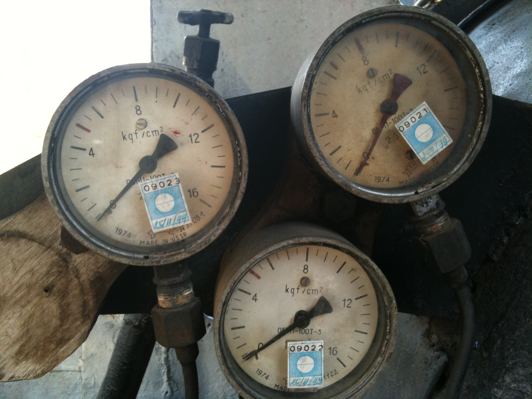 Close-up of the pressure dials inside the steam locomotive parked at Da Lat Railway Station. These dials were "Made in USSR" in 1974, and they measure pressure in kilogram-force per square centimeter (kgf/cm2).